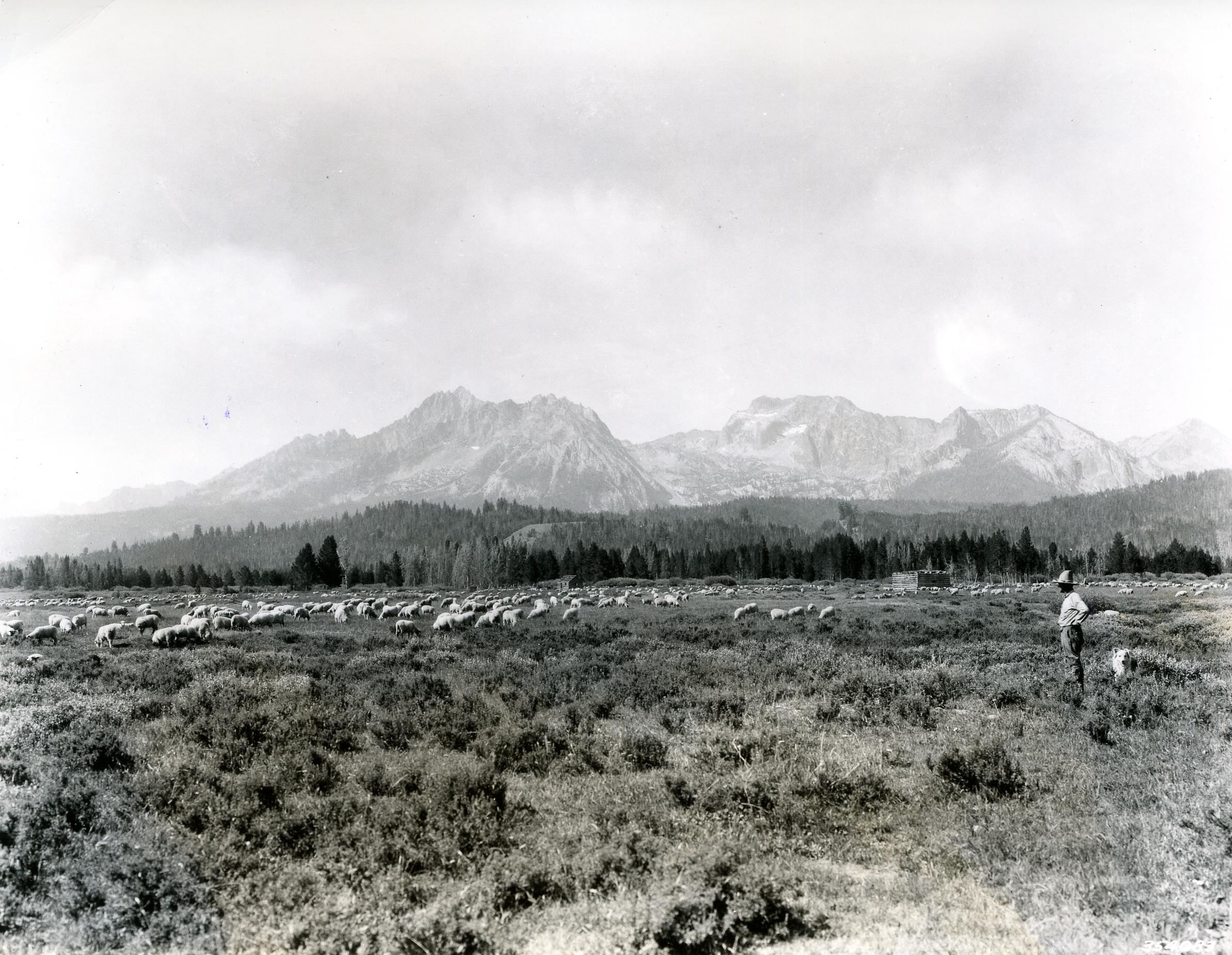 Image Title: Sheep - Stanley Basin Date: c.1937 Place: Stanley Basin, Idaho Description/Caption: On verso, "Sheep raising is an important Idaho industry. Flocks graze on national forests from about June 15 to October 15. This scene is on the Challis National Forest in mid August. The great mountains of the Sawtooth primitive area form the background. Revenue from sheep and cattle grazing is an important source of revenue on national forests. Fees from sheep grazing vary from about 2 1/2 cents to 4 1/2 cents per head per month depending on accessibility of the range." Medium: black and white photograph Photographer/Maker: Unknown Cite as: ID-J-0085, Restrictions: There are no known U.S. copyright restrictions on this image. While the digital image is freely available, it is requested that be credited as its source. For higher quality reproductions of the original physical version contact restrictions may apply.